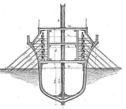 A late 19th-century erroneous interpretation of the oar arrangement of an ancient quinquereme.